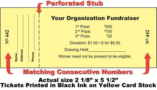 raffle ticket example